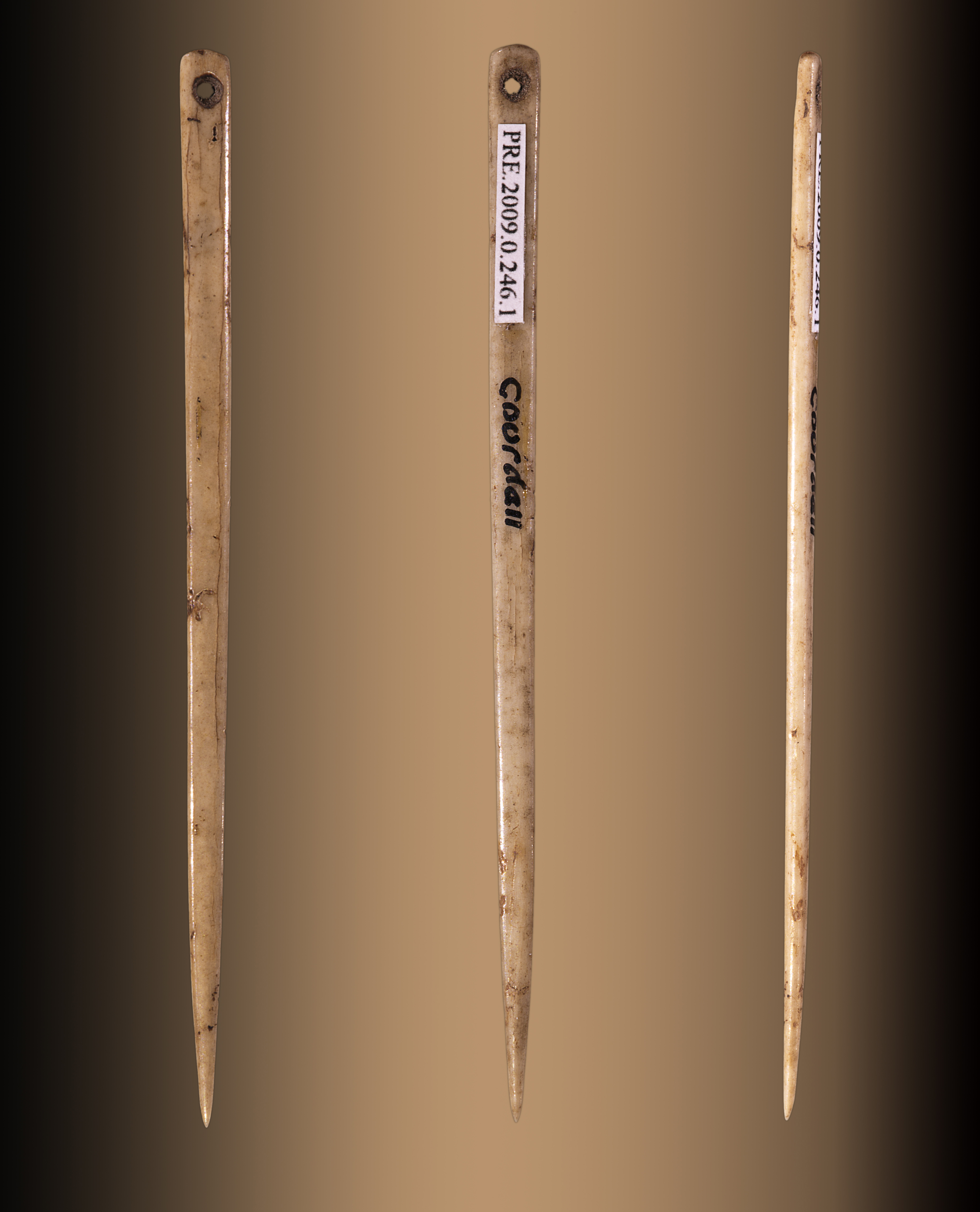 Flat bone sewing needle - Views of the same object Locality : Gourdan cave says "Elephant Cave", Gourdan–Polignan, Haute-Garonne , France Search and collection: Henri Filhol Stage : Magdalenian Upper Paleolithic (between 17,000 and 10,000 Before the Current Era) Size : 59x3x2 mm